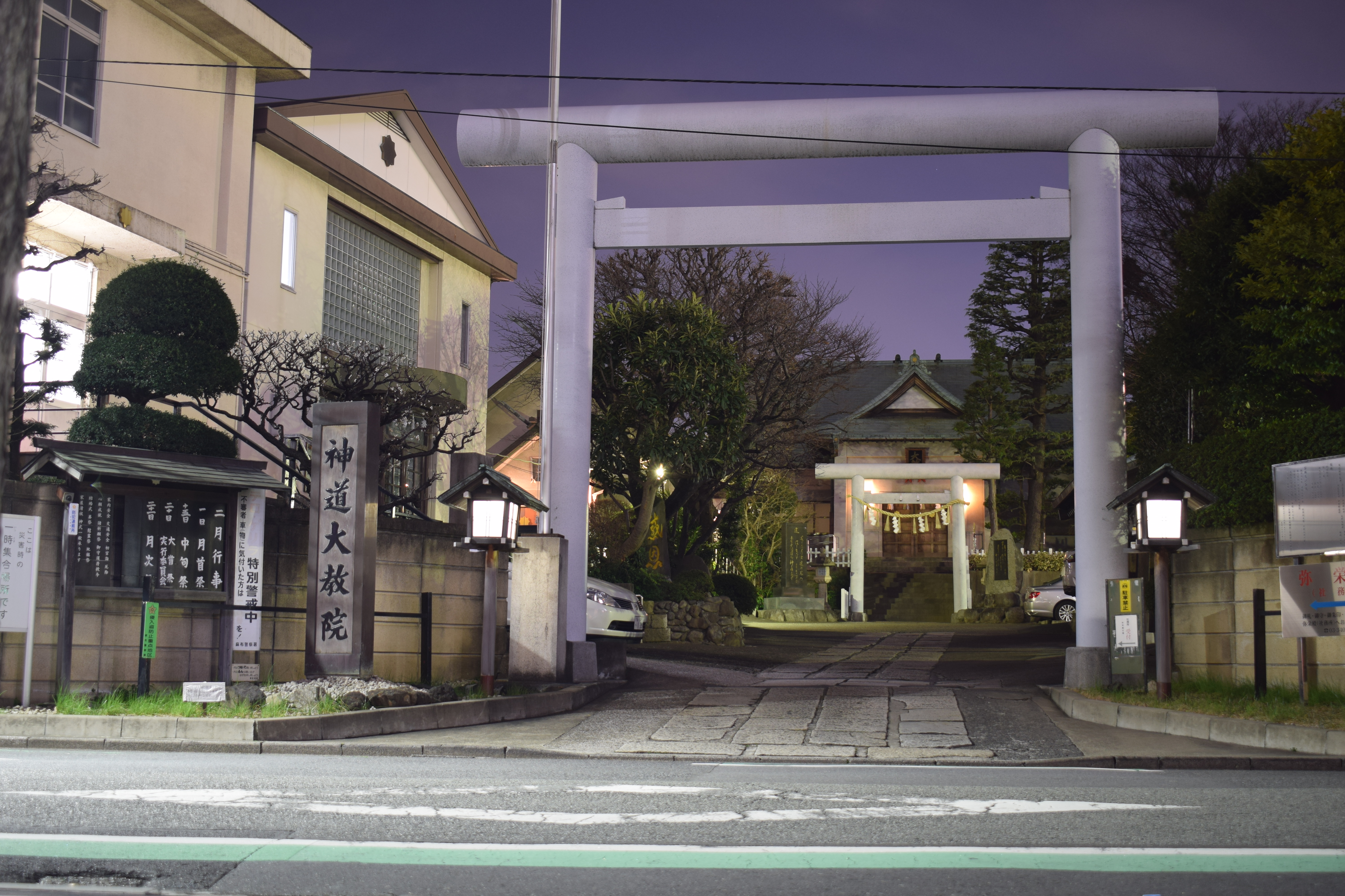 religious organization